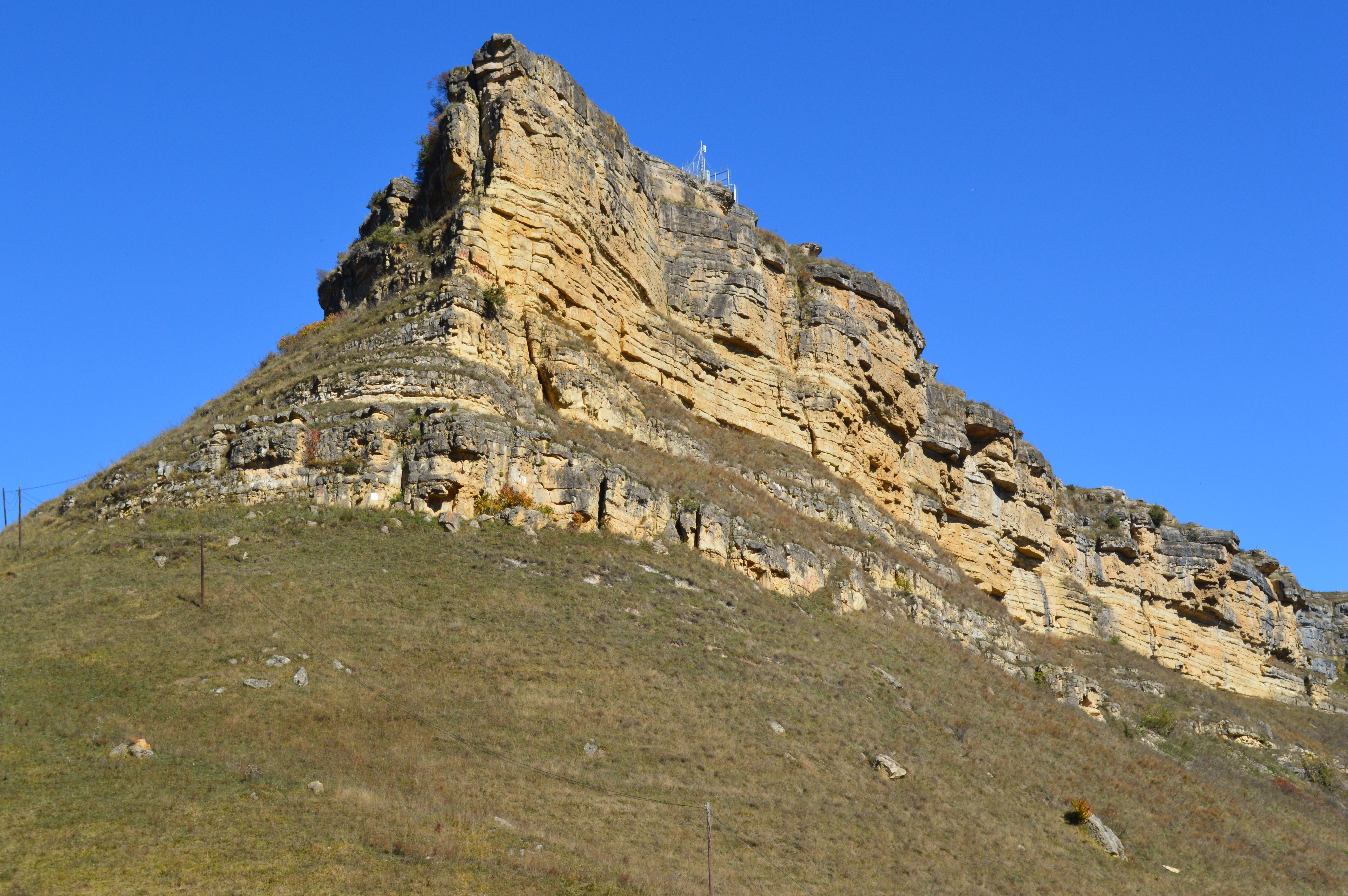 Malokarachayevsky District, Karachay-Cherkessia, Russia